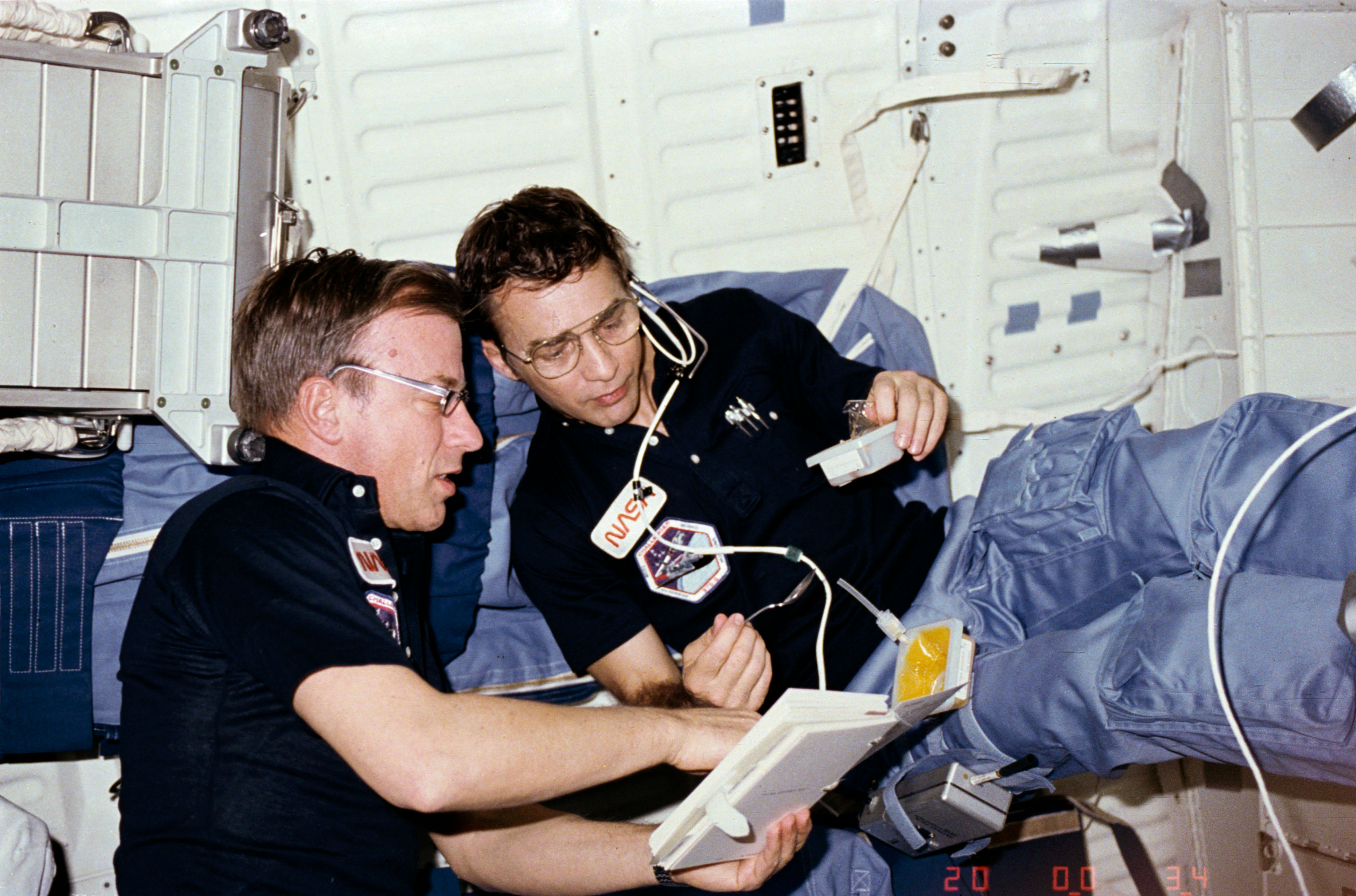 Mission Specialist (MS) Peterson, holding food container, eats while reviewing procedures with Commander Weitz (wearing bifocals) on middeck in front of starboard wall. Weitz points out an item in the frew activity plan (CAP) to Peterson as the mission specialist uses a spoon to eat a meal aboard the Earth-orbiting Challenger, Orbiter Vehicle (OV) 099. Weitz and Peterson are wearing the shirt and trouser portions of the light blue cotton multi-piece constant wear garments.